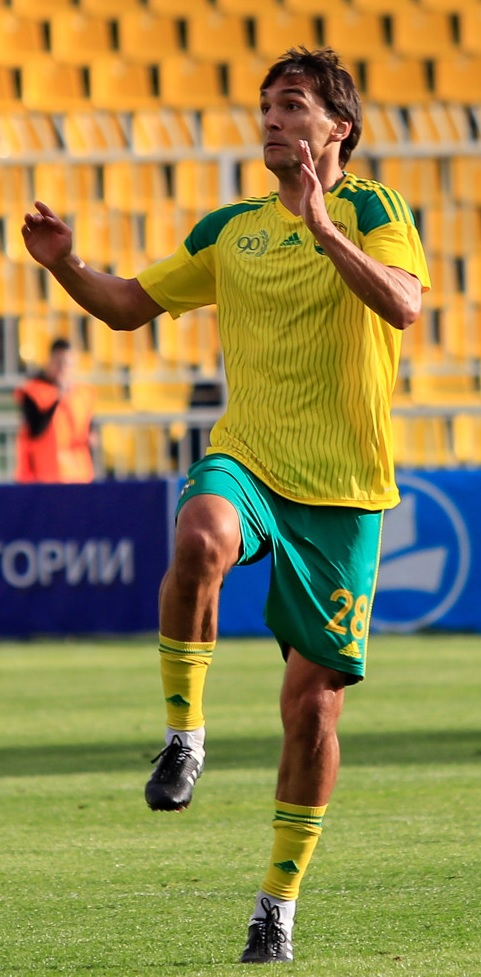 Azat Bayryyev with FC Kuban Krasnodar in a game against FC Tambov.